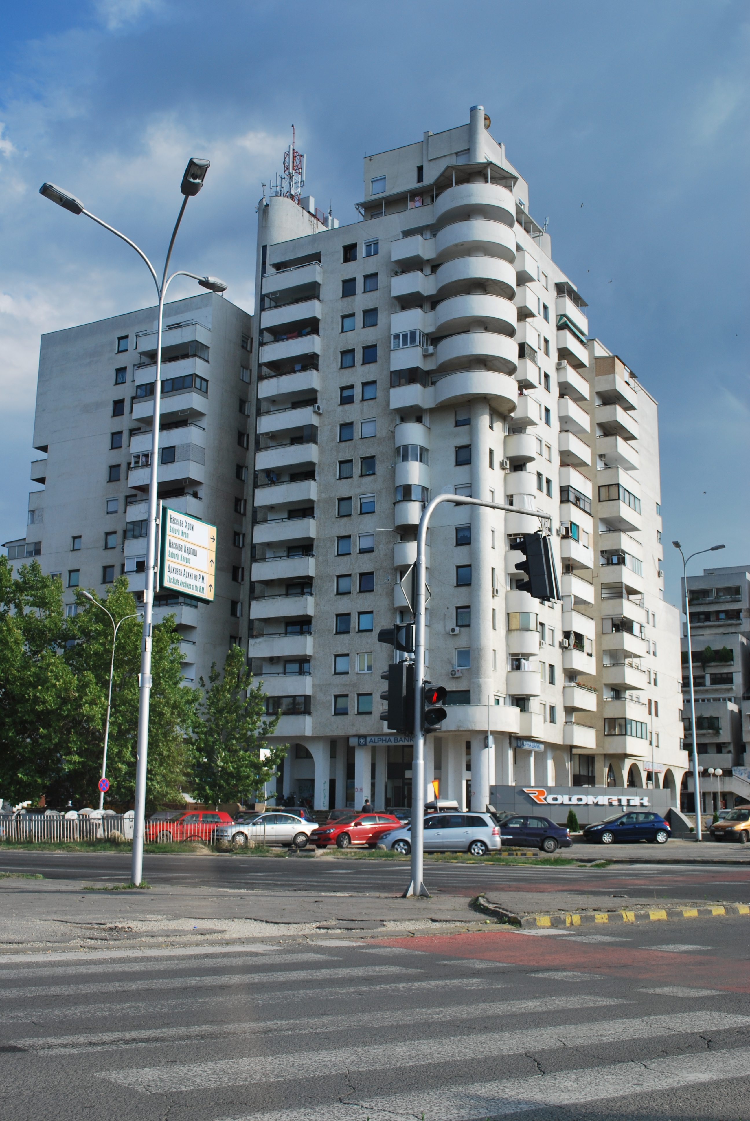 Vlae, a Quarter of Skopje, Macedonia